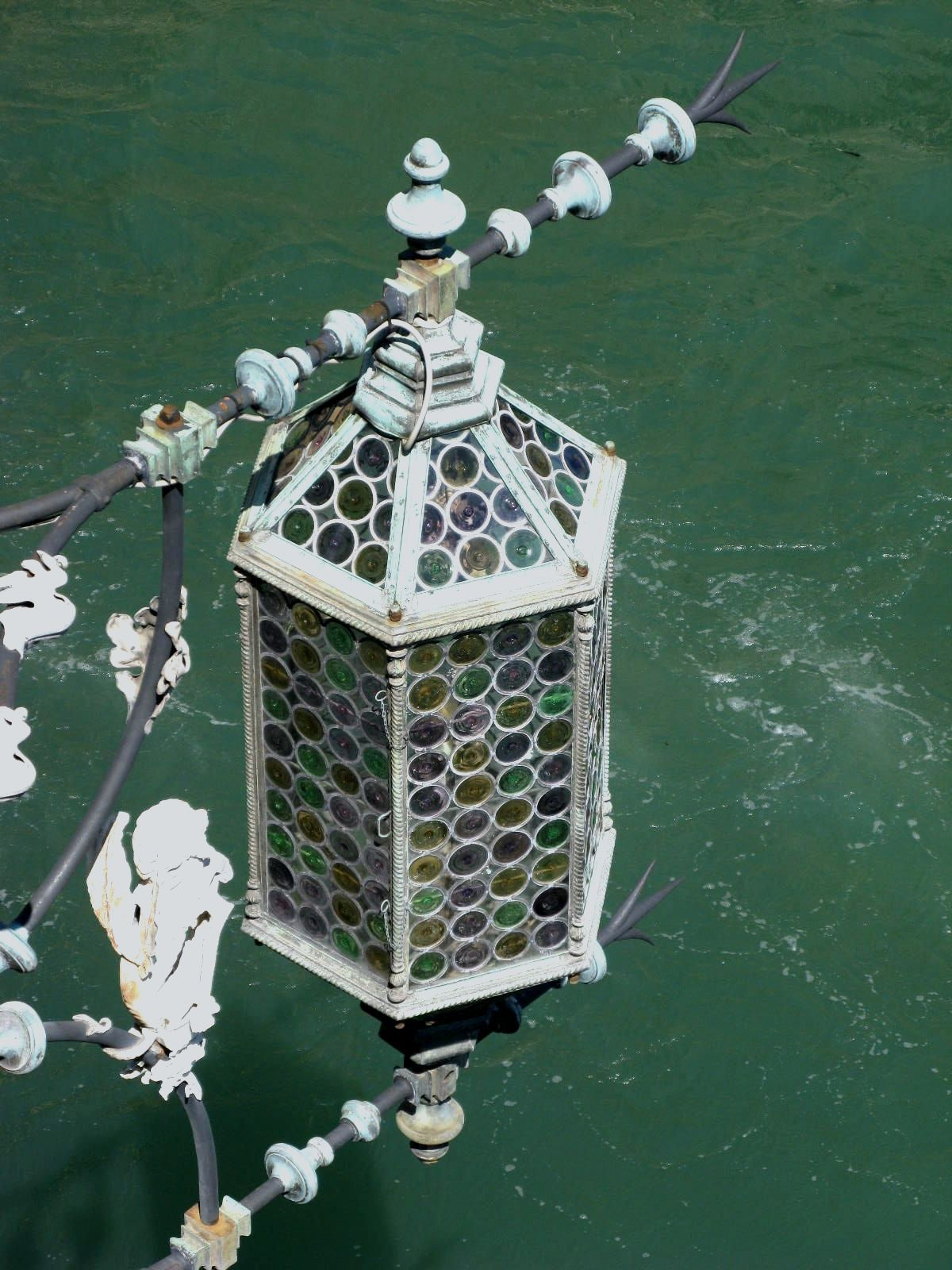 19th century lantern on the main façade of Ca'Foscari looking onto the Grand Canal, Venezia.